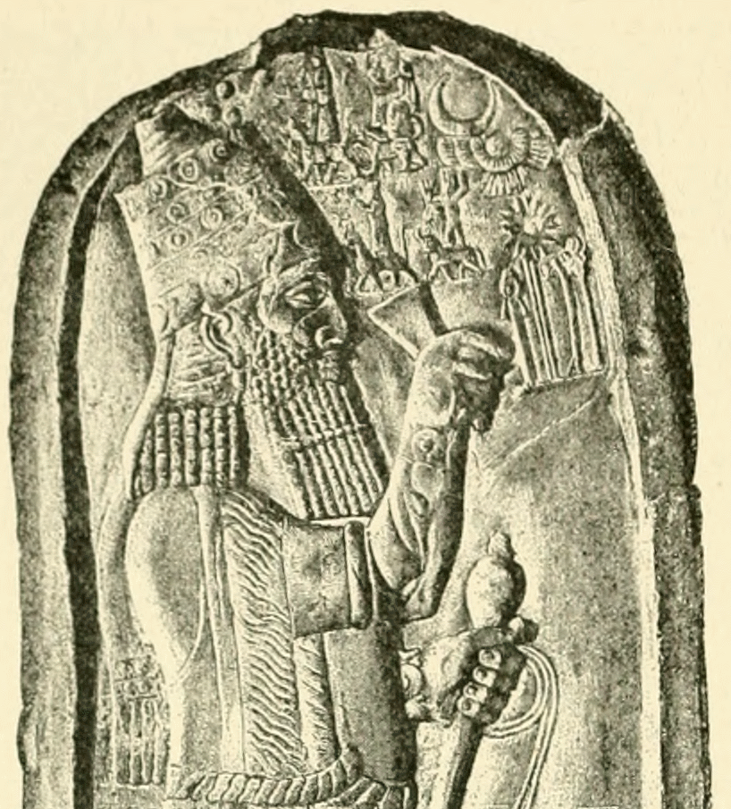 Portion of the victory Stele of Esarhaddon over Taharqa, drawn by Faucher-Gudin.